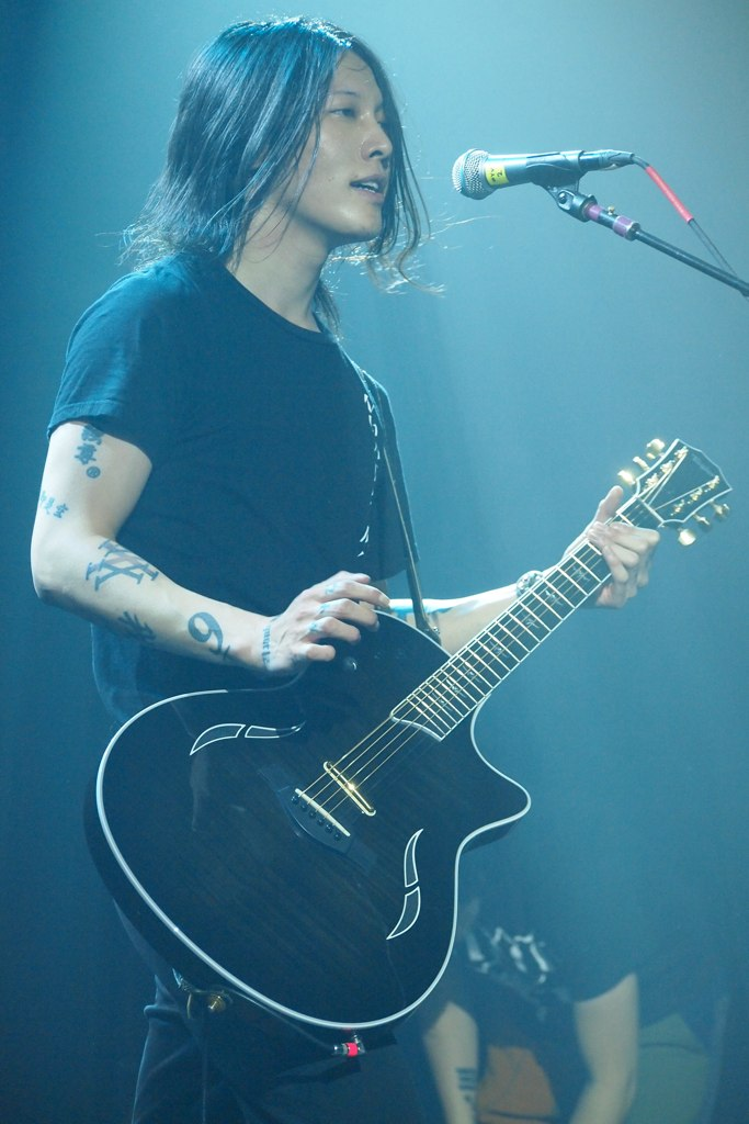 Miyavi performing at Irving Plaza in New York, United States, on October 31, 2011. Photo by May S. Young.